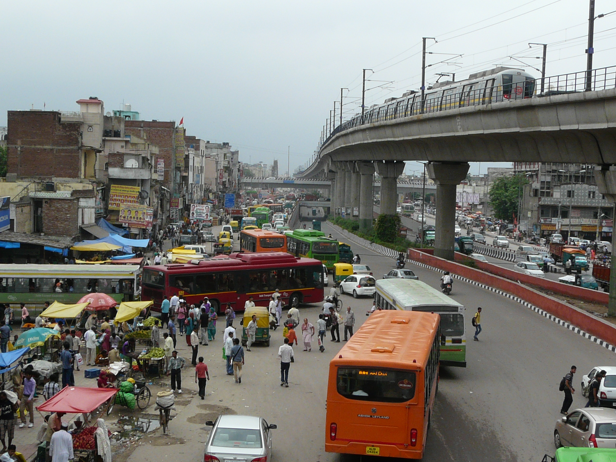 The Delhi Metro with train running towers above traffic in the Azadpur section of Delhi, India. New Compressed Natural Gas (CNG) buses (red (air condition), green and orange) are seen in the picture. Uploaded by Fowler&fowler (talk) 13:02, 9 September 2012 (UTC)